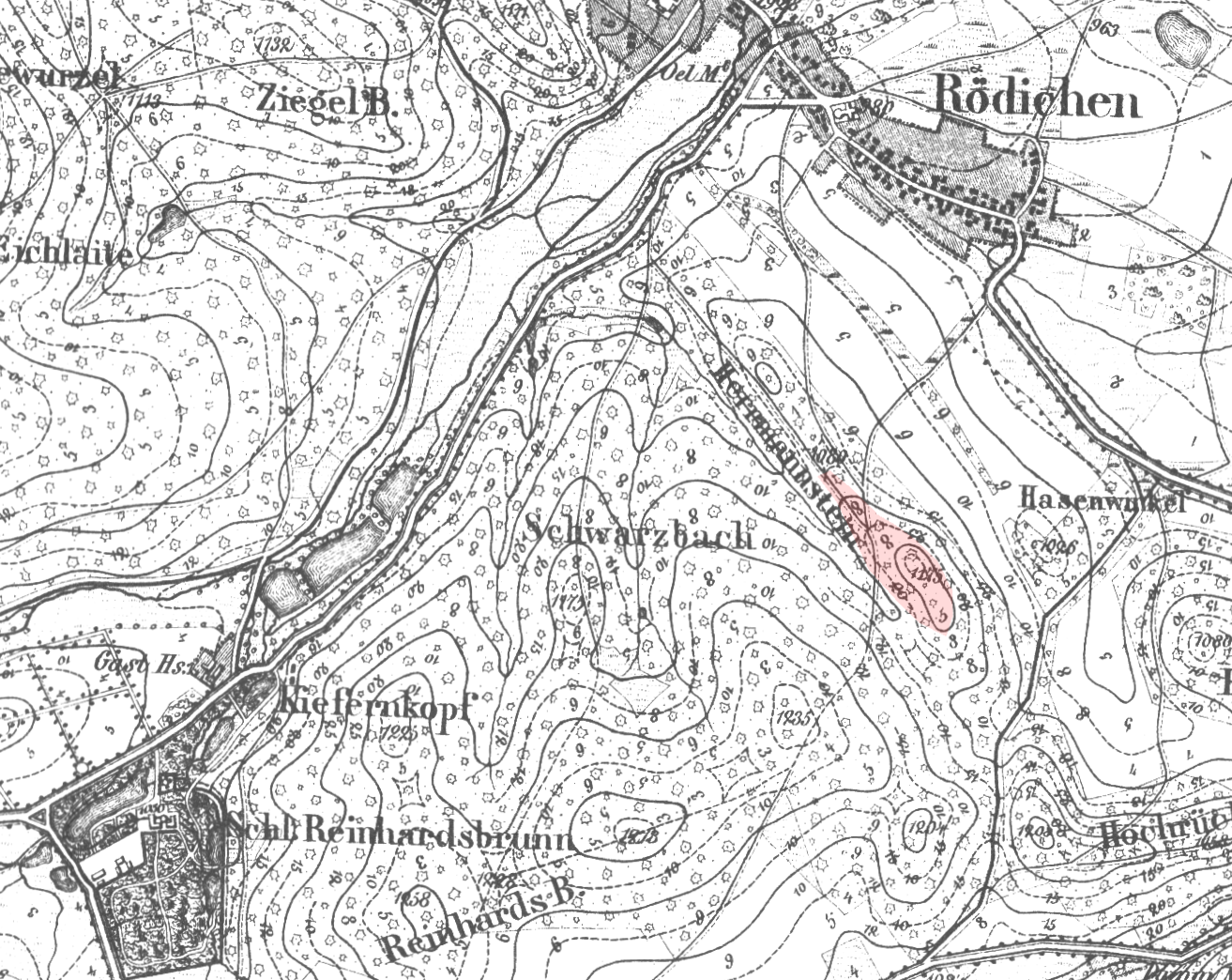 A map of Friedrichroda with the location Hermannstein castle.